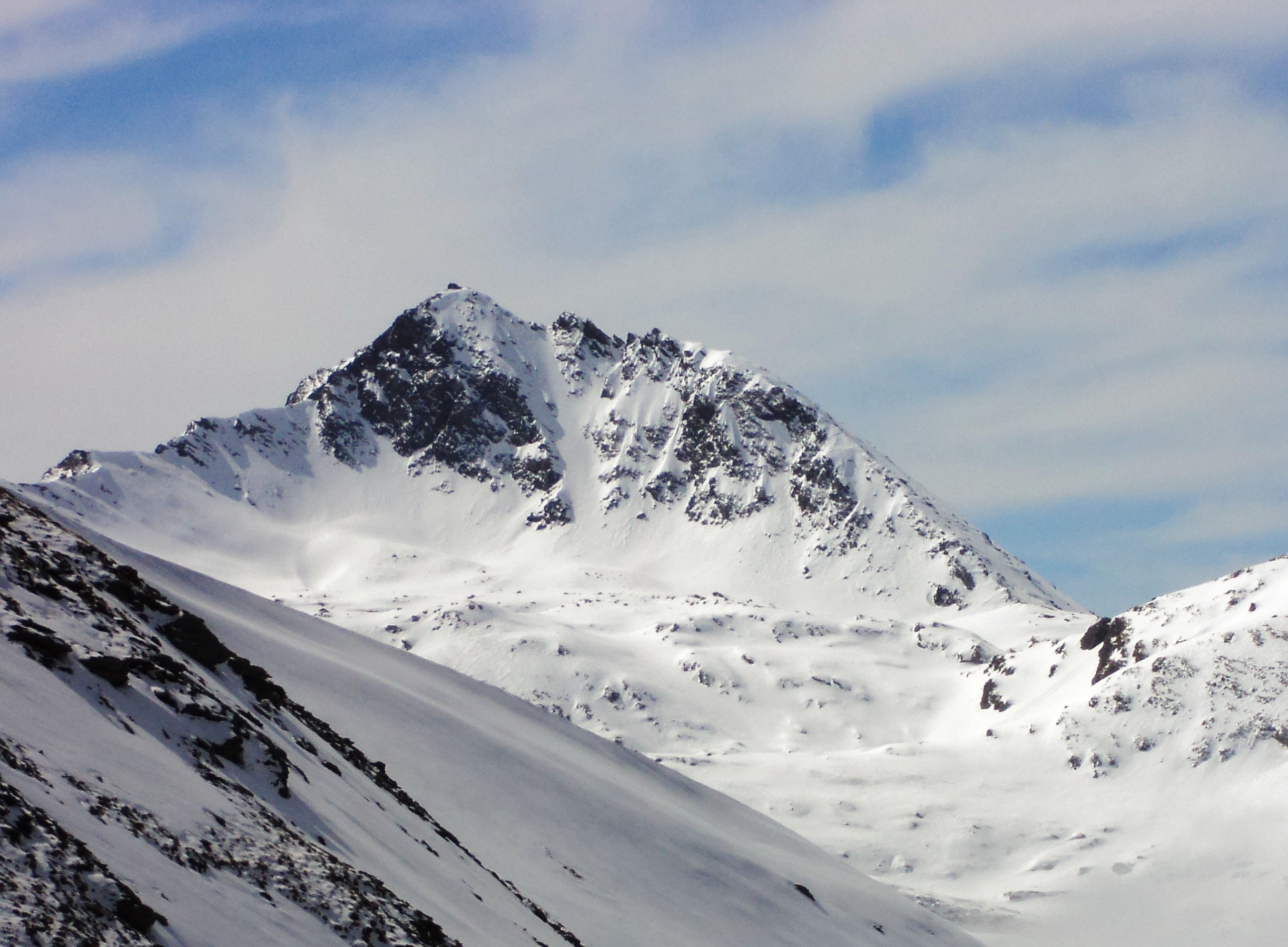 Bric Ghinert- Province of Turin